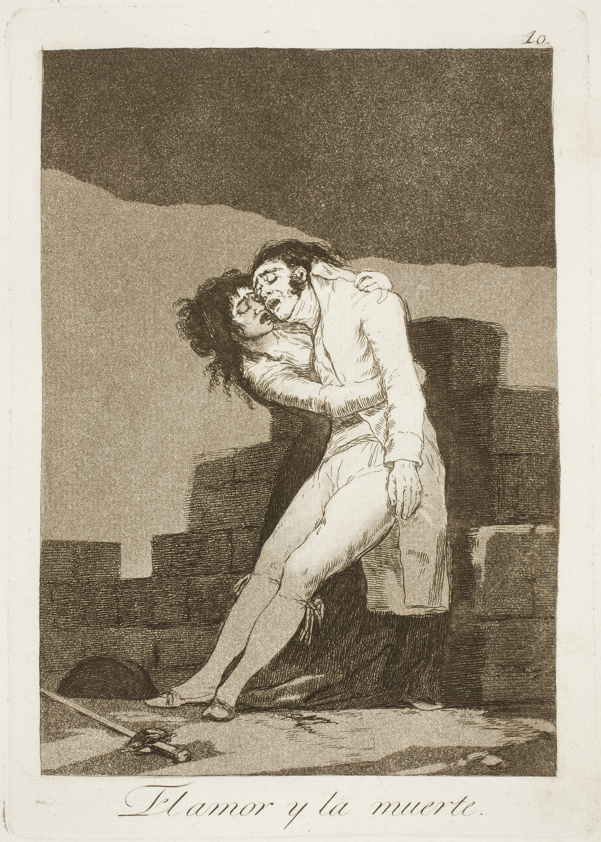 This print is work No. 10 of the "Caprichos" series (1st edition, Madrid, 1799).